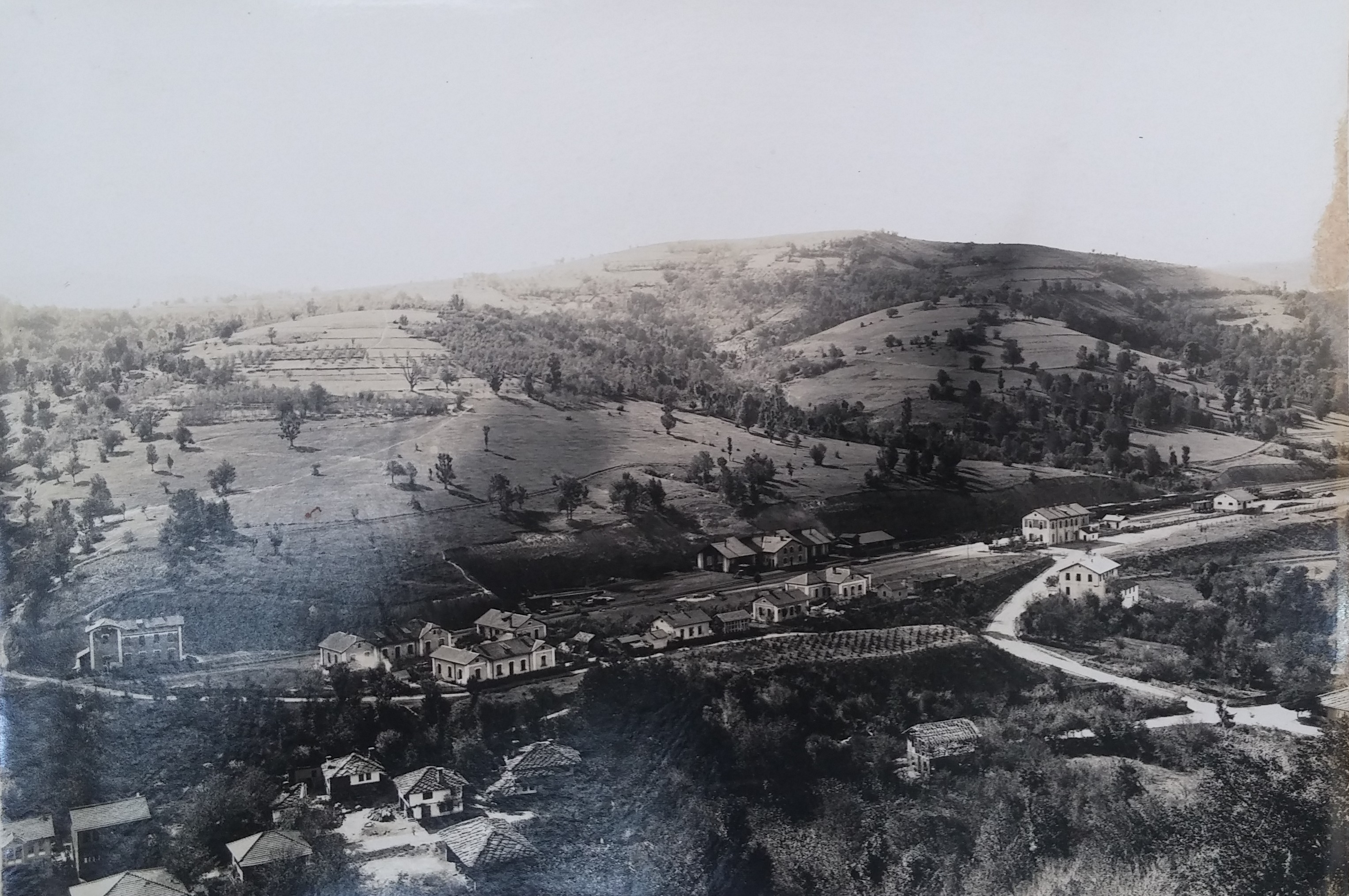 Construction of the railway line Veliko Tarnovo - Tryavna - Borushtitsa. Plachkovtsi station.